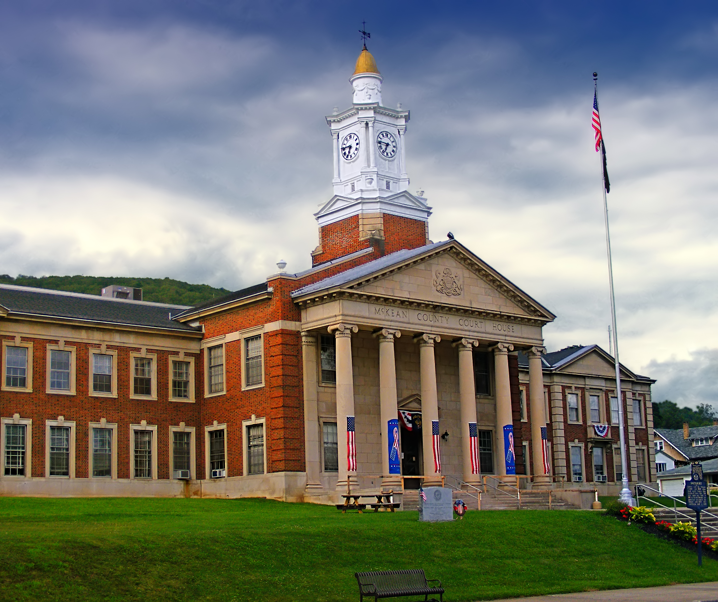 Late-day light, McKean County Courthouse, Smethport.